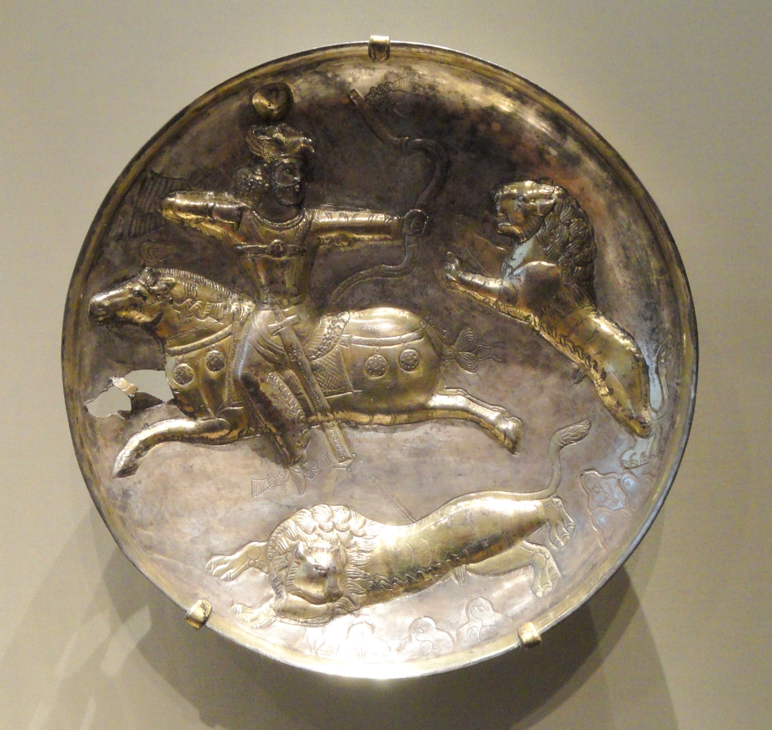 Hunting King Plate, 303-309 AD, Sasanian, Iran, silver and gilt.